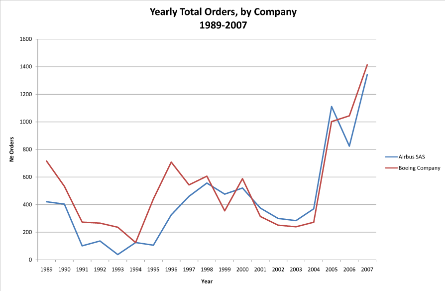 Graph of data from :en:Airbus#Orders_and_deliveries